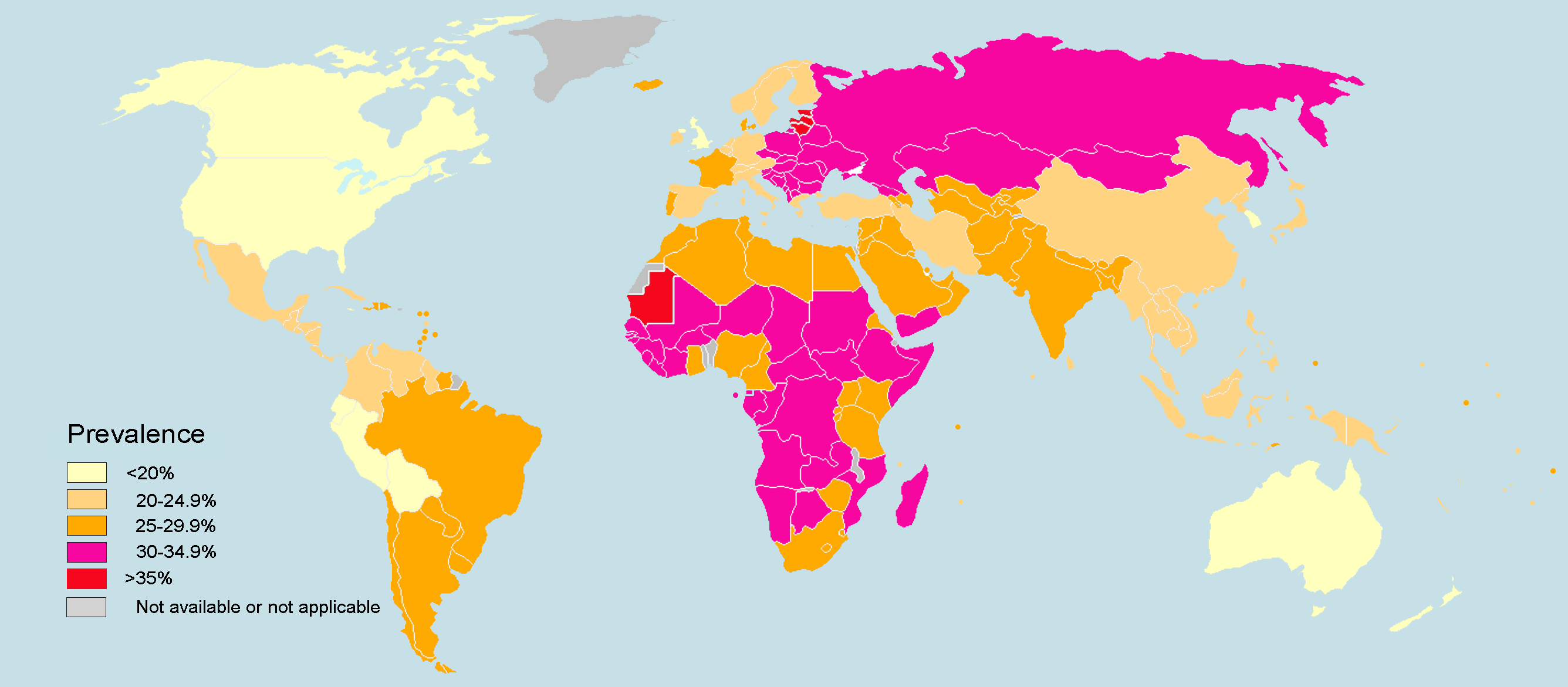 Map of the age standardized prevalence of raised blood pressure (systolic blood pressure ≥140 and/or diastolic blood pressure ≥90 mmHg) in adult men in 2014. Based on data from the World Health Organization (